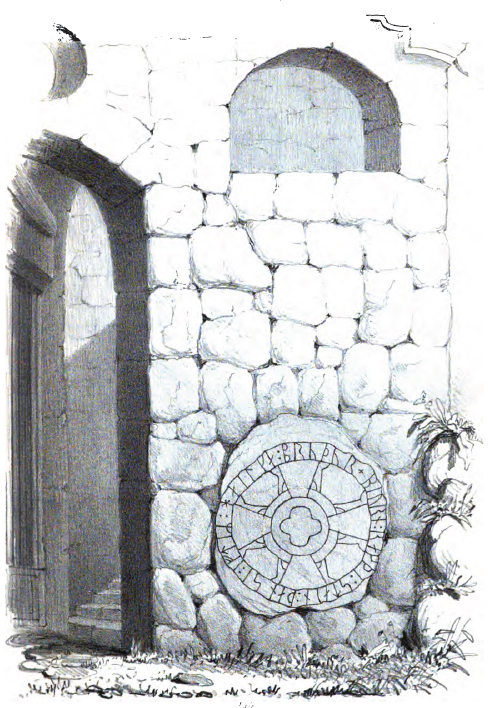 The runestone Sö 129. The inscription reads biurn : rais=þi : stain : þansi : iftiR : hailka : bruþur +. In English "Bjôrn raised this stone in memory of Helgi, (his) brother. "